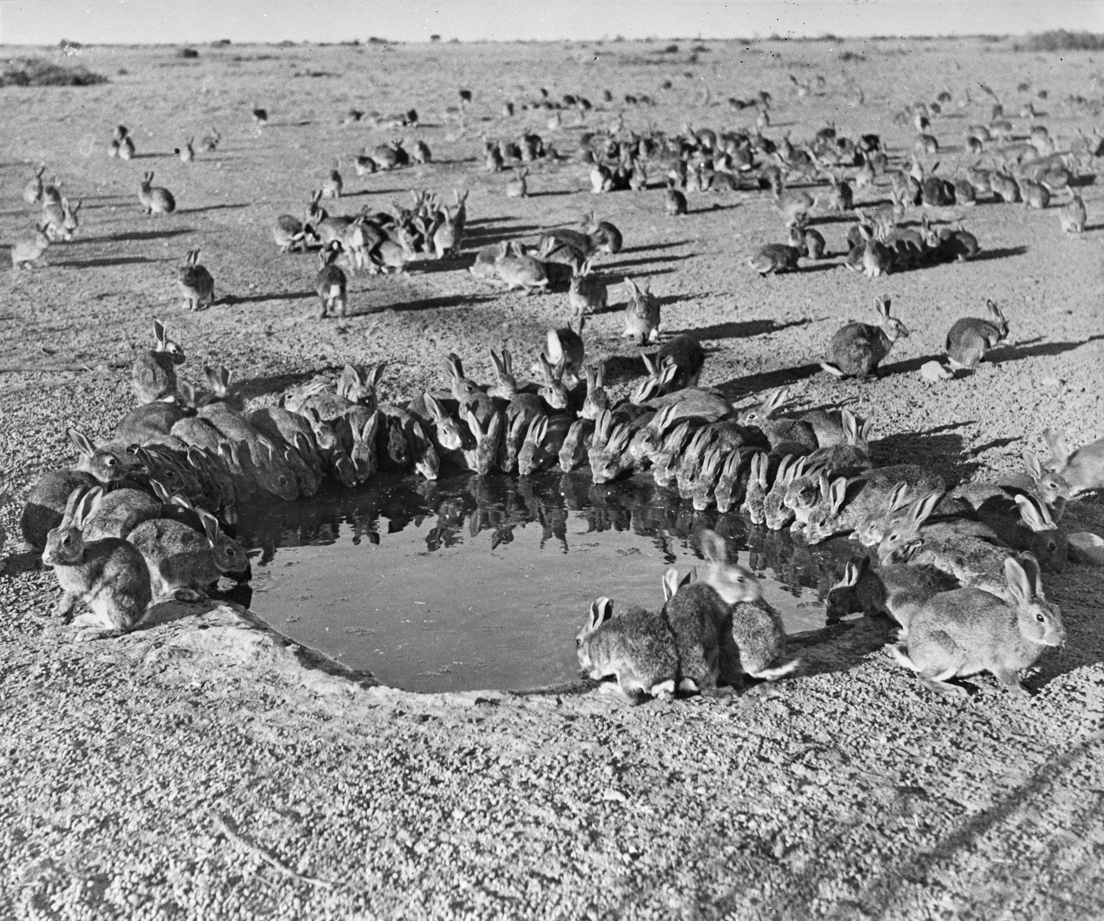 Rabbits around a waterhole at the myxomatosis trial enclosure on Wardang Island in 1938. National Archives of Australia: barcode - 11145789, series accession number A1200/19.